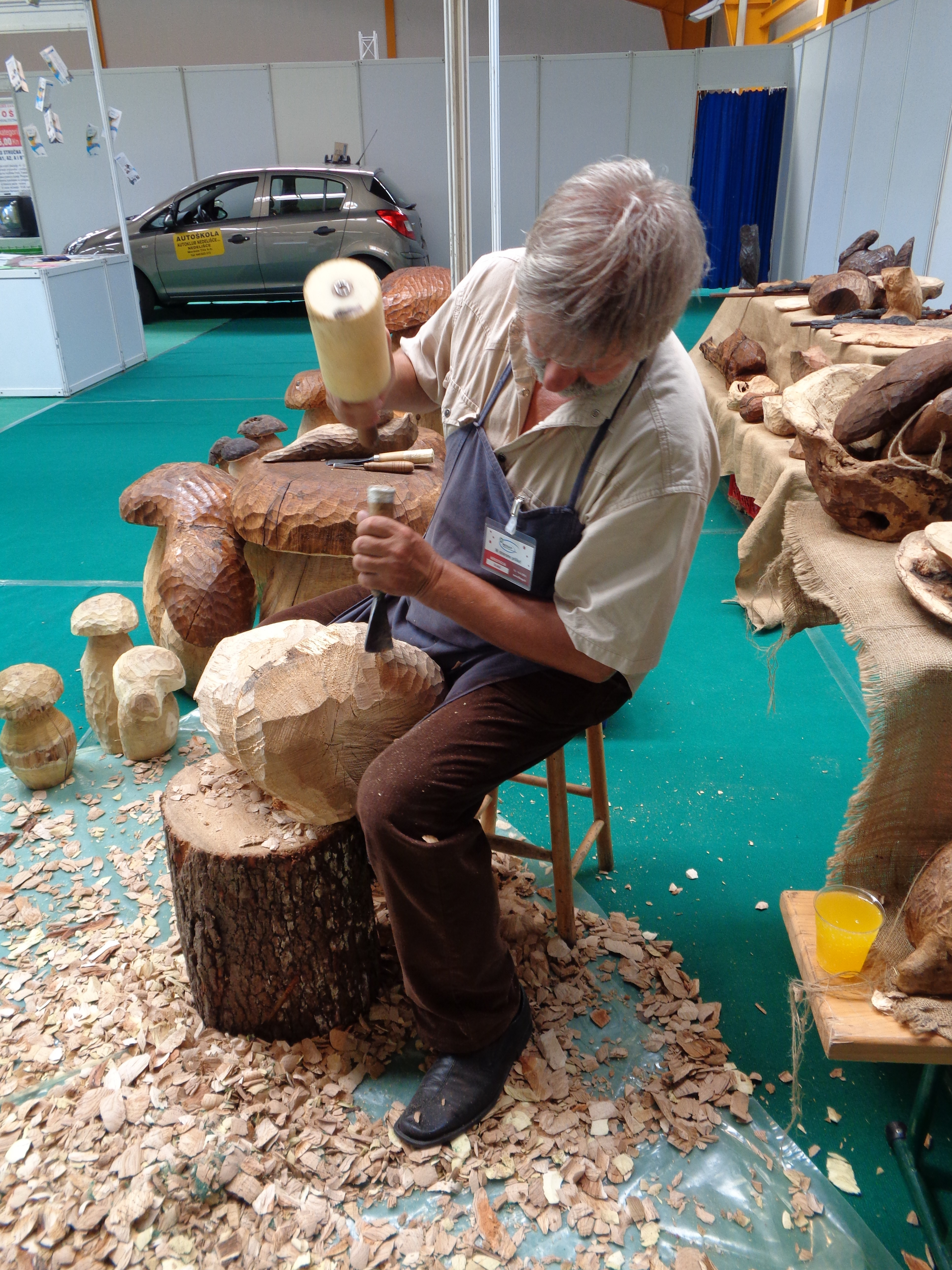 Dragutin Jamnić, naïve art sculptor from Lepoglava, at MESAP Trade Fair 2015., Croatia